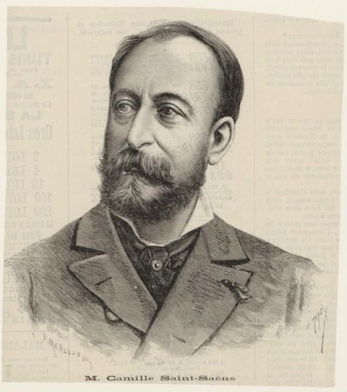 Engraving of Camille Saint-Saëns